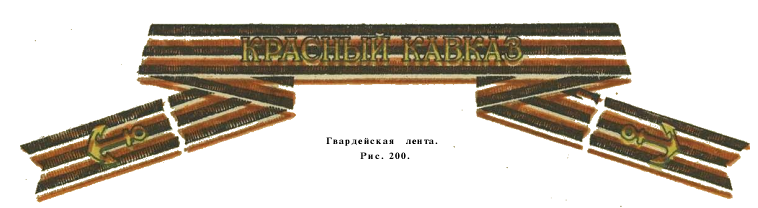 Гвардейская лента - книга